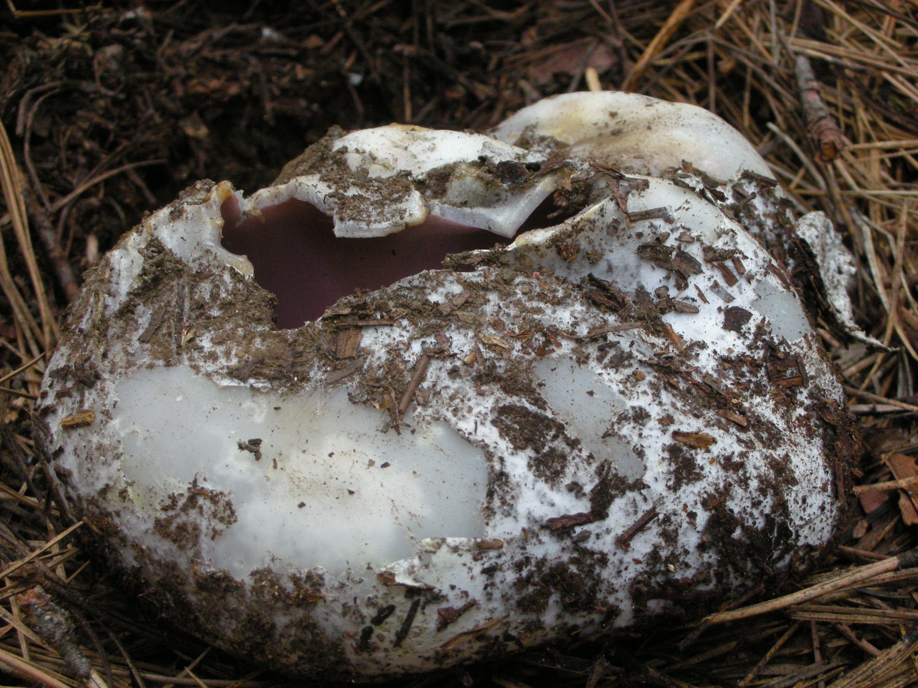 The cup fungus Sarcosphaera coronaria (Jacq.) J. Schröt. Specimen photographed in Evergreen Rd, California, USA.